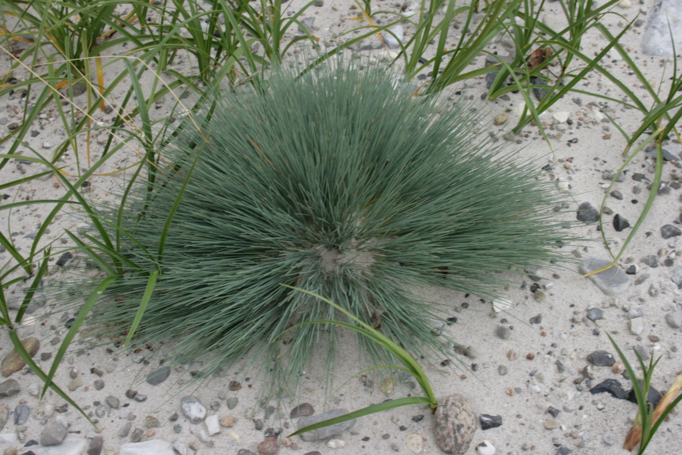 Corynephorus canescens: Habitus.